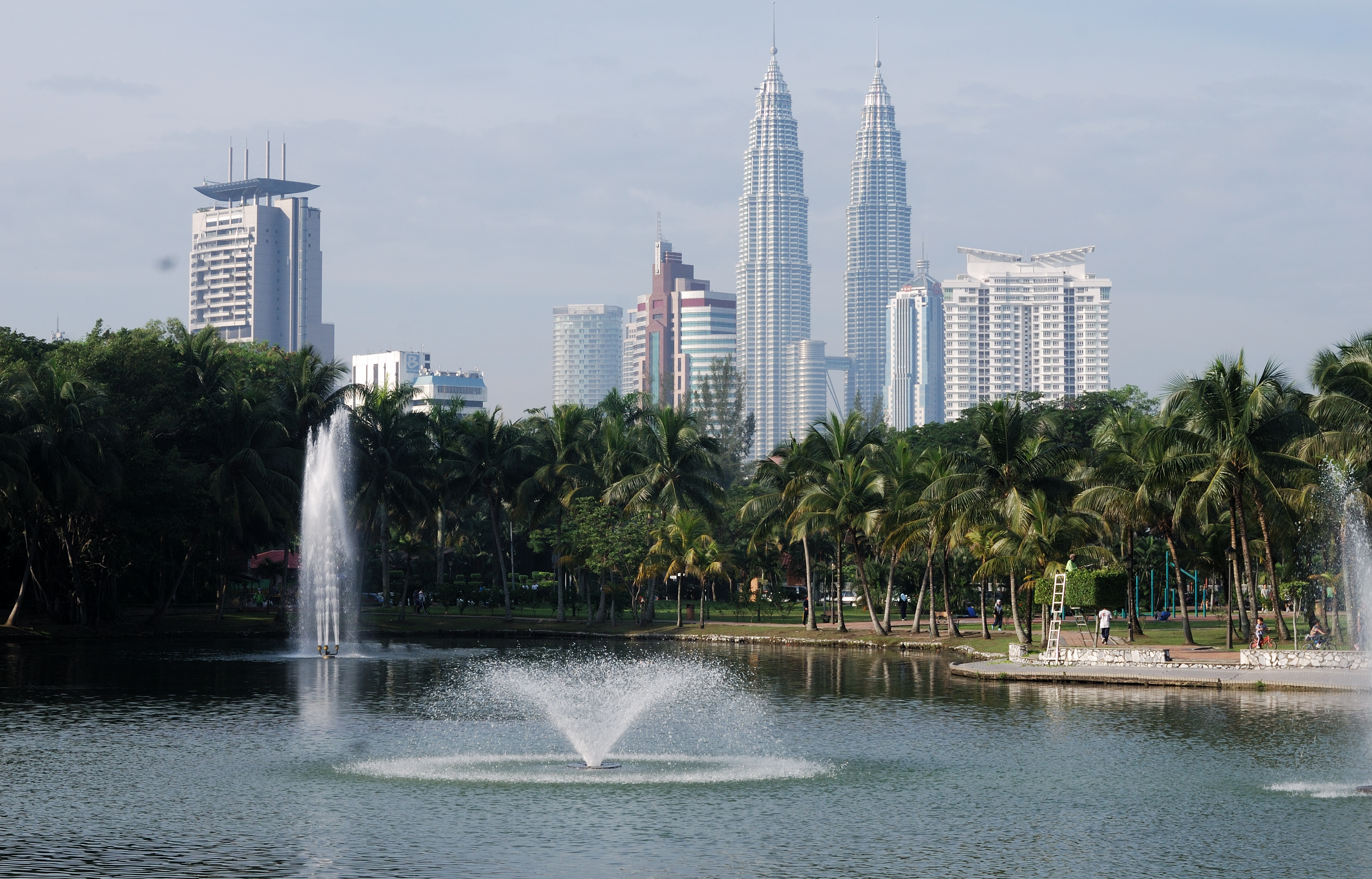 Lake Titiwangsa Park is one of the many green lungs in Kuala Lumpur. A popular park for folks to walk, jog or just while away their time enjoying the excellent view of the Petronas Twin Towers, the Kuala Lumpur Tower and others reflected in the lake.